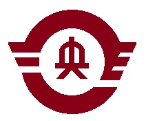 Shoo Okayama chapter